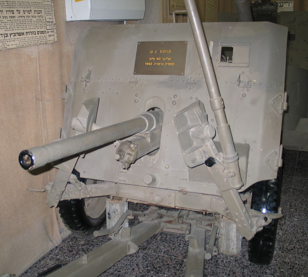 Description: British QF 2-pounder anti-tank gun (mislabeled as "German 40-mm AT gun") in Batey ha-Osef Museum, Tel-Aviv, Israel. Source: Photo by me, User:Bukvoed.